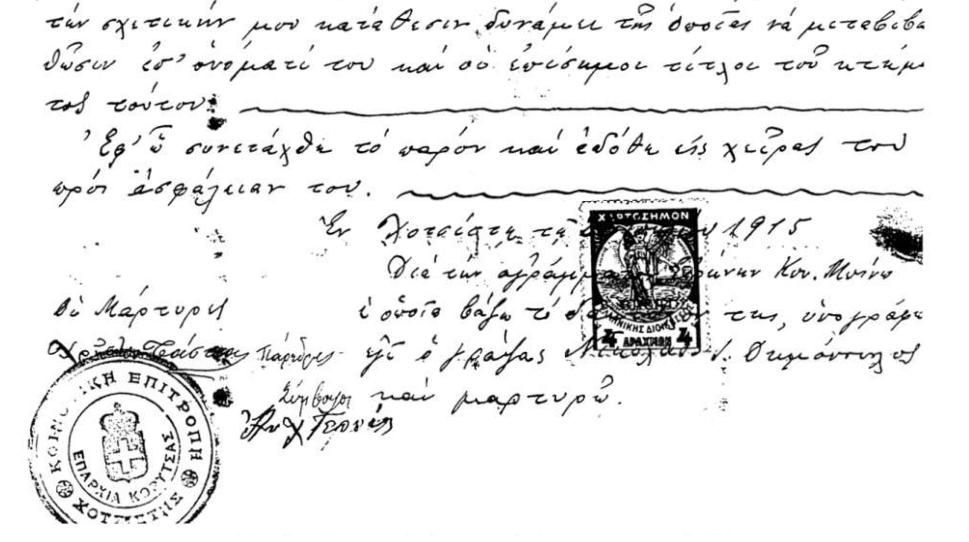 The lower part of a sale contract for a house, entered in Autonomous North Epirus, Jul 25, 1915. Stamp with the insignia of the Kingtom of Greece in the center, and the inscription ΕΠΑΡΧΙΑ ΚΟΡΥΤΣΑΣ - ΚΟΙΝΟΤΙΚΗ ΕΠΙ­ΤΡΟΠΗ * ΧΟΤΣΙΣΤΗΣ* . Revenue stamp (ΧΑΡΤΟΣΗΜΟΝ), value 4 drachmas, with the overprint "Β. ΗΠΕΙΡΟΣ" (North Epirus).